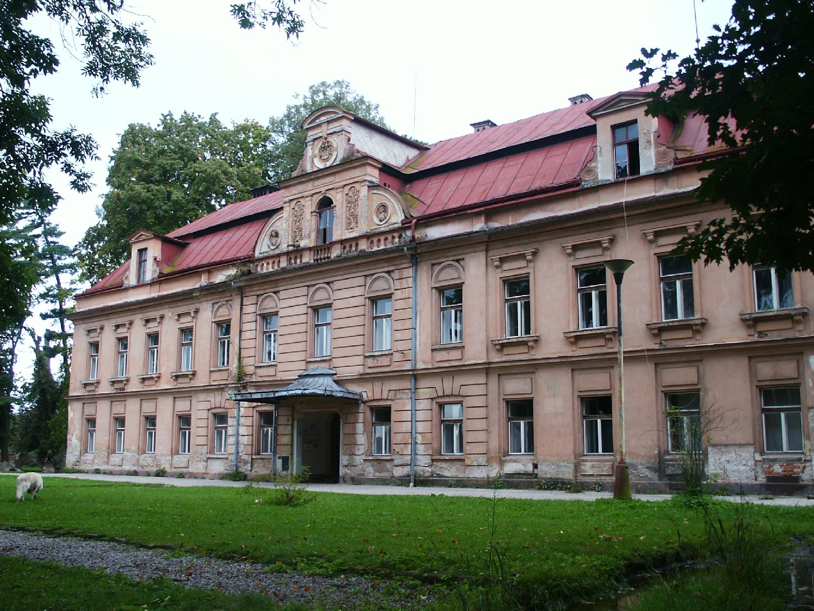 Fořt - chateau